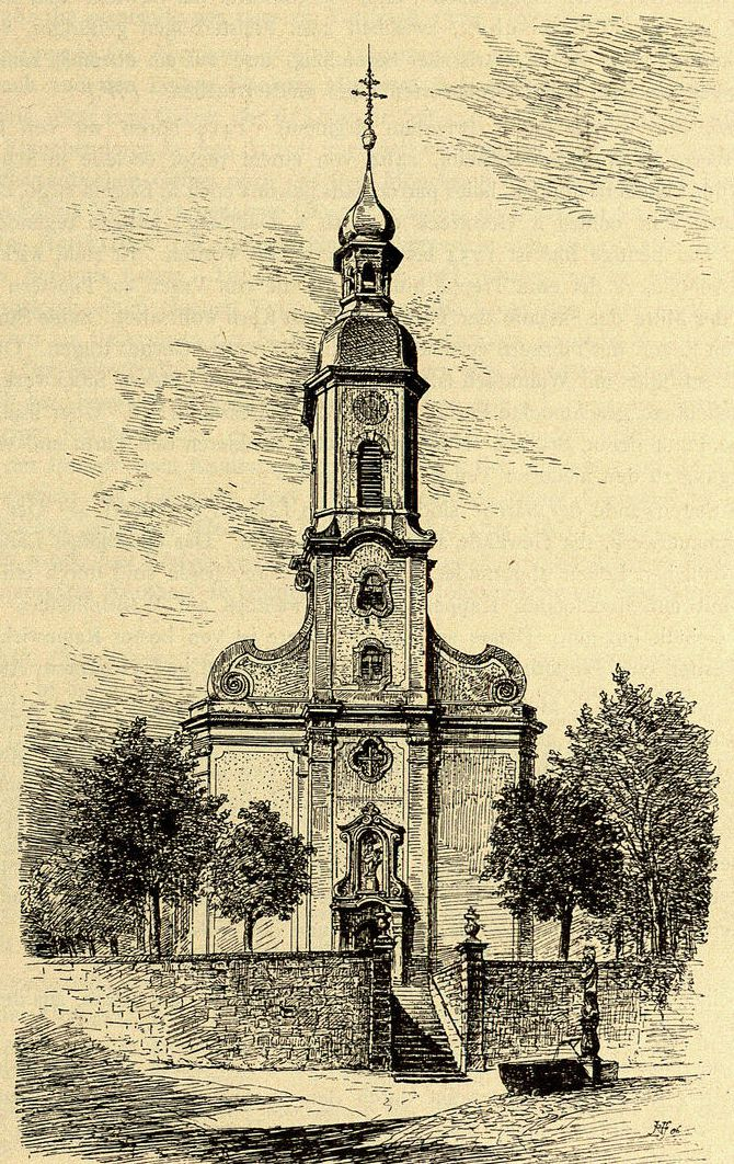 Church St. Brigitta, Hohberg-Niederschopfheim, Baden-Württemberg, Germany, in 1908